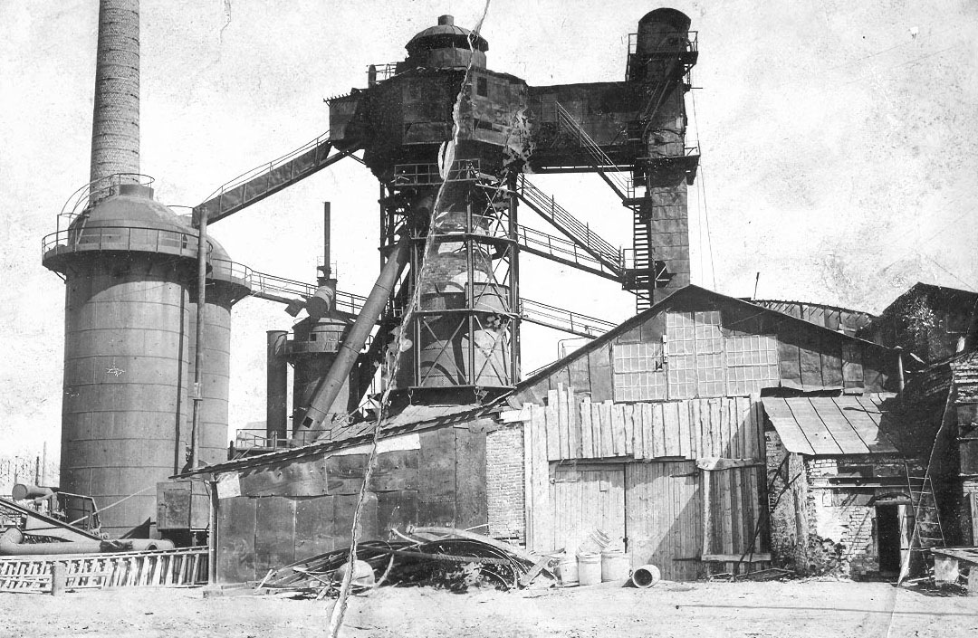 metal-working plant, Ruspolymet, Kulebaki, photo 1913